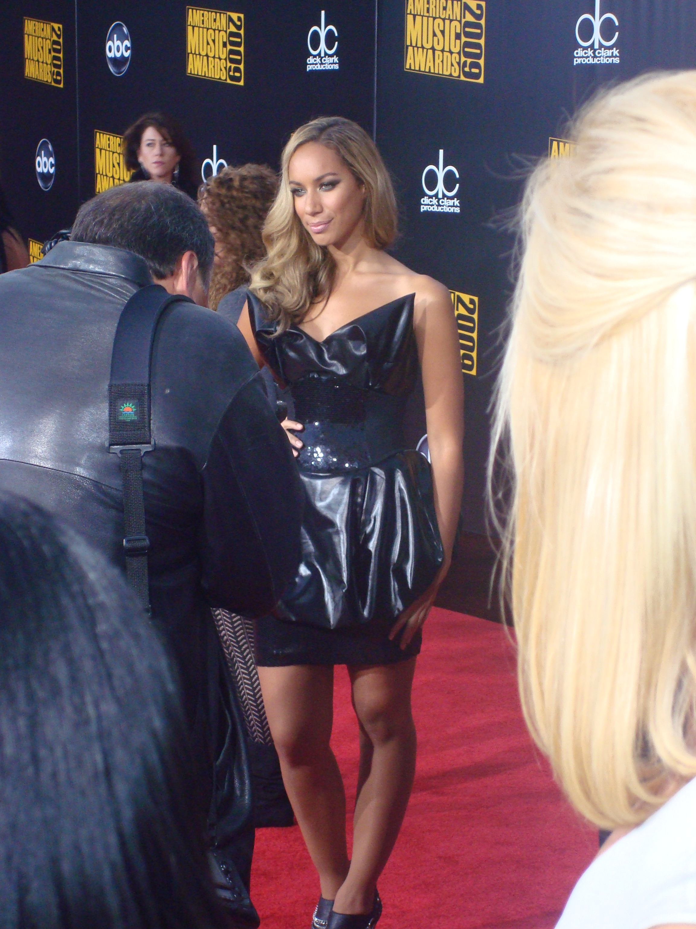 Leona Lewis at the 2009 American Music Awards